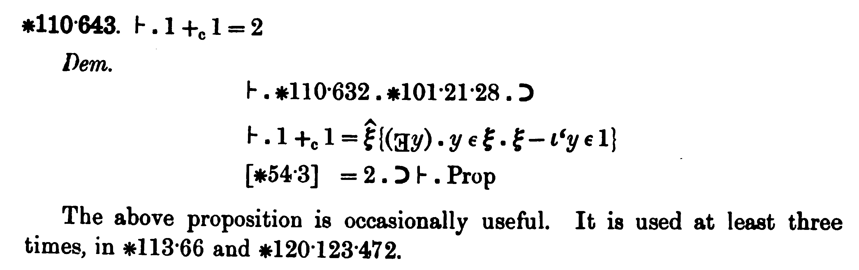 image of the point in the text where Russell deduces that 1+1=2.